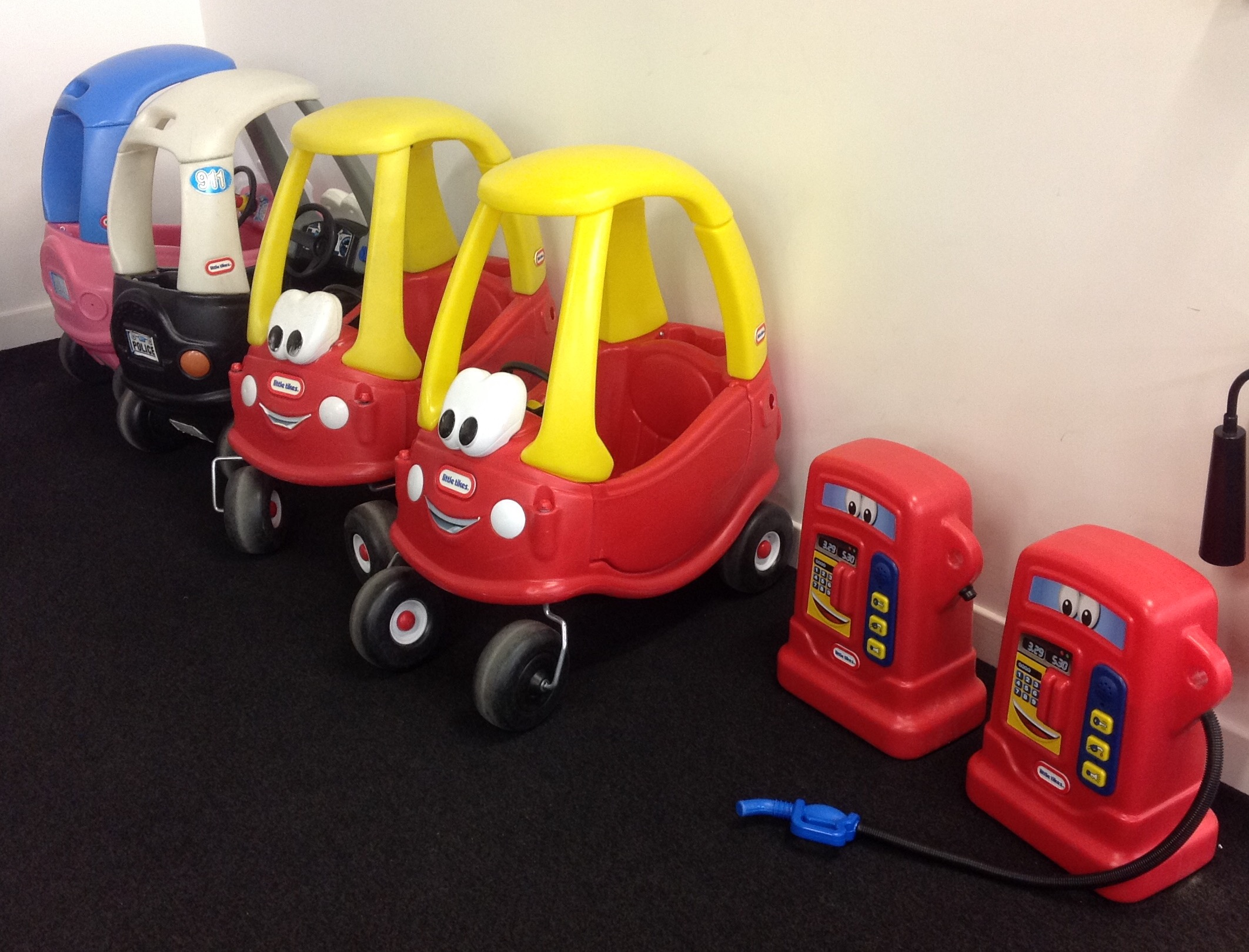 Haynes International Motor Museum, Sparkford, Somerset.